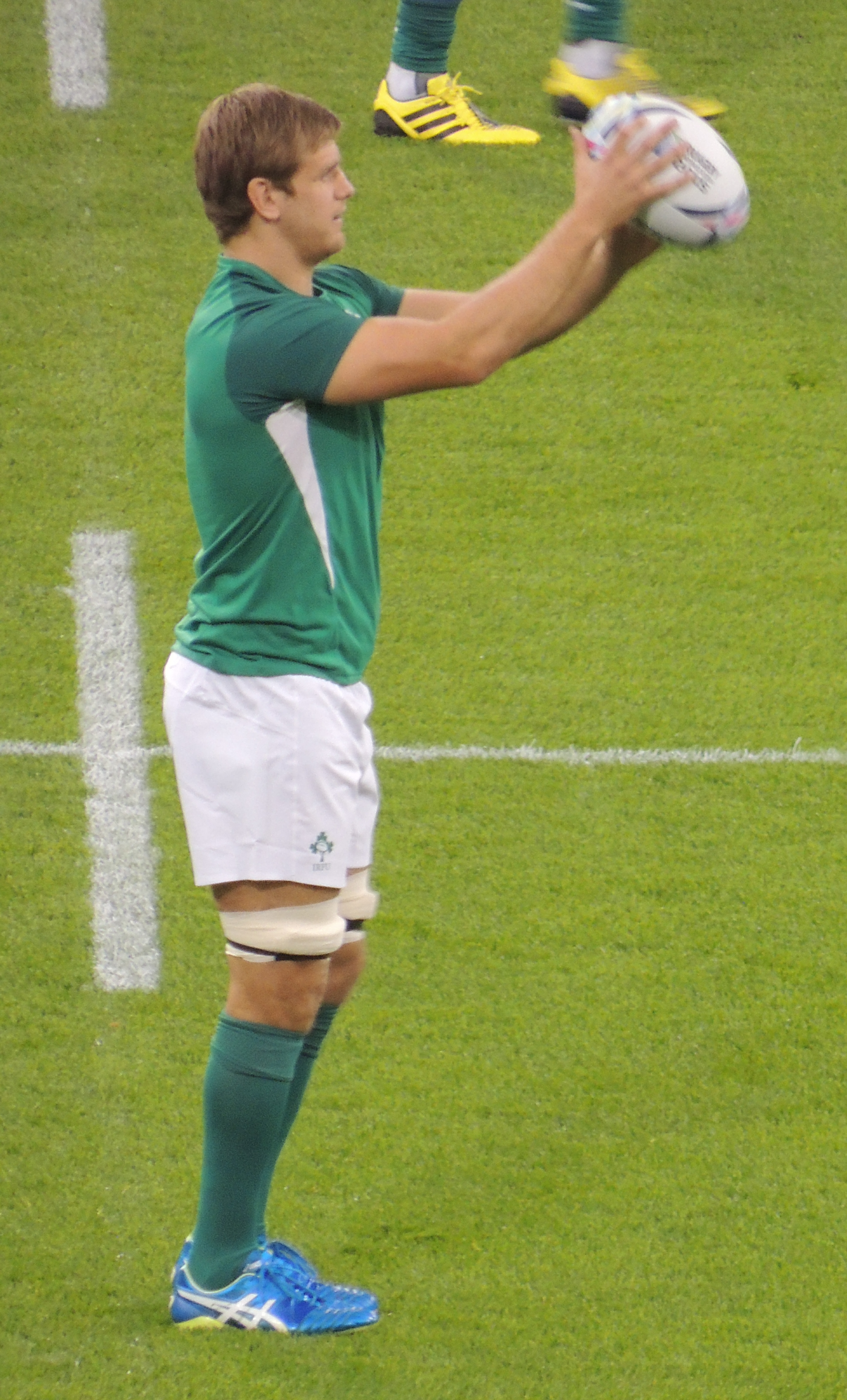 Irish rugby union player Chris Henry playing in 2015 Rugby World Cup game Ireland vs Canada at Millennium Stadium in Cardiff.